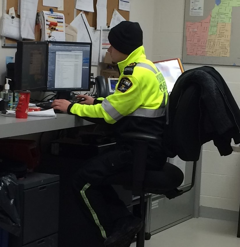 York Region EMS dispatch